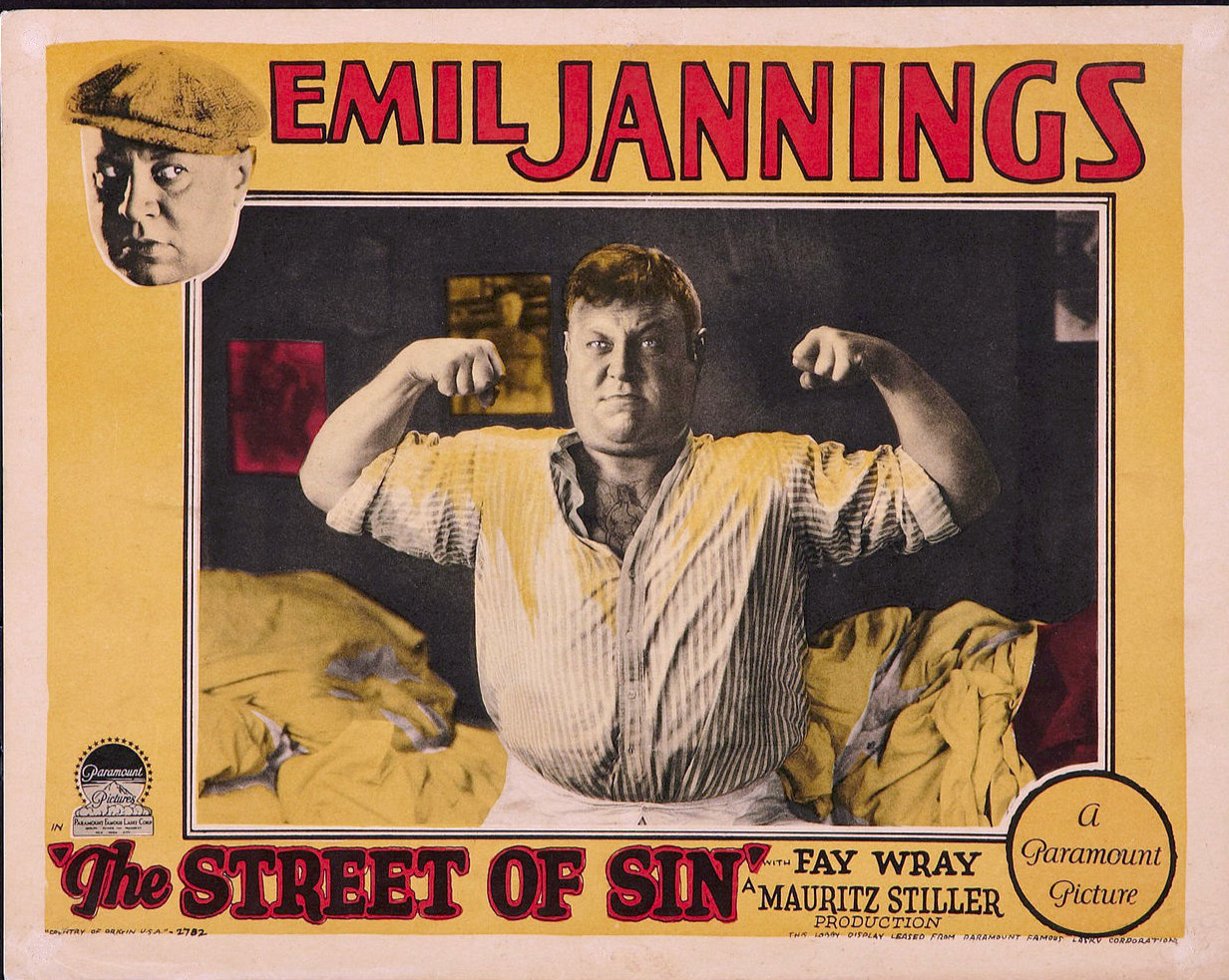 Lobby card for the 1928 film Street of Sin. There are no copyright marks on the item which can be seen in the link above. The item had some thumb tack holes and tears which were fixed; they can be seen at the link. At bottom left is Country of origin USA-2782. At bottom right is This lobby display leased from Paramount Famous Lasky Corporation.